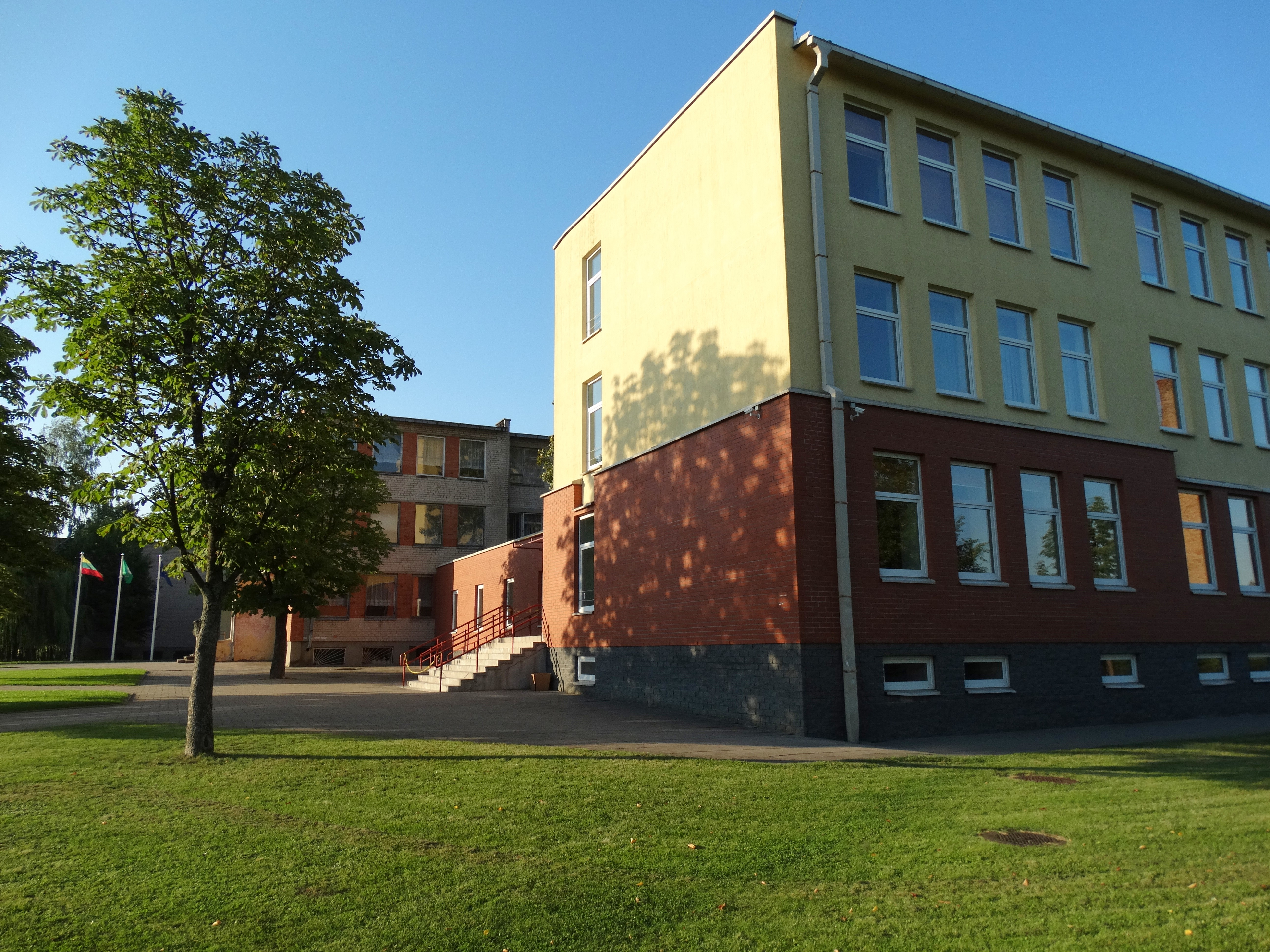 Rytas Gymnasium, Pabradė, Švenčionys District, Lithuania